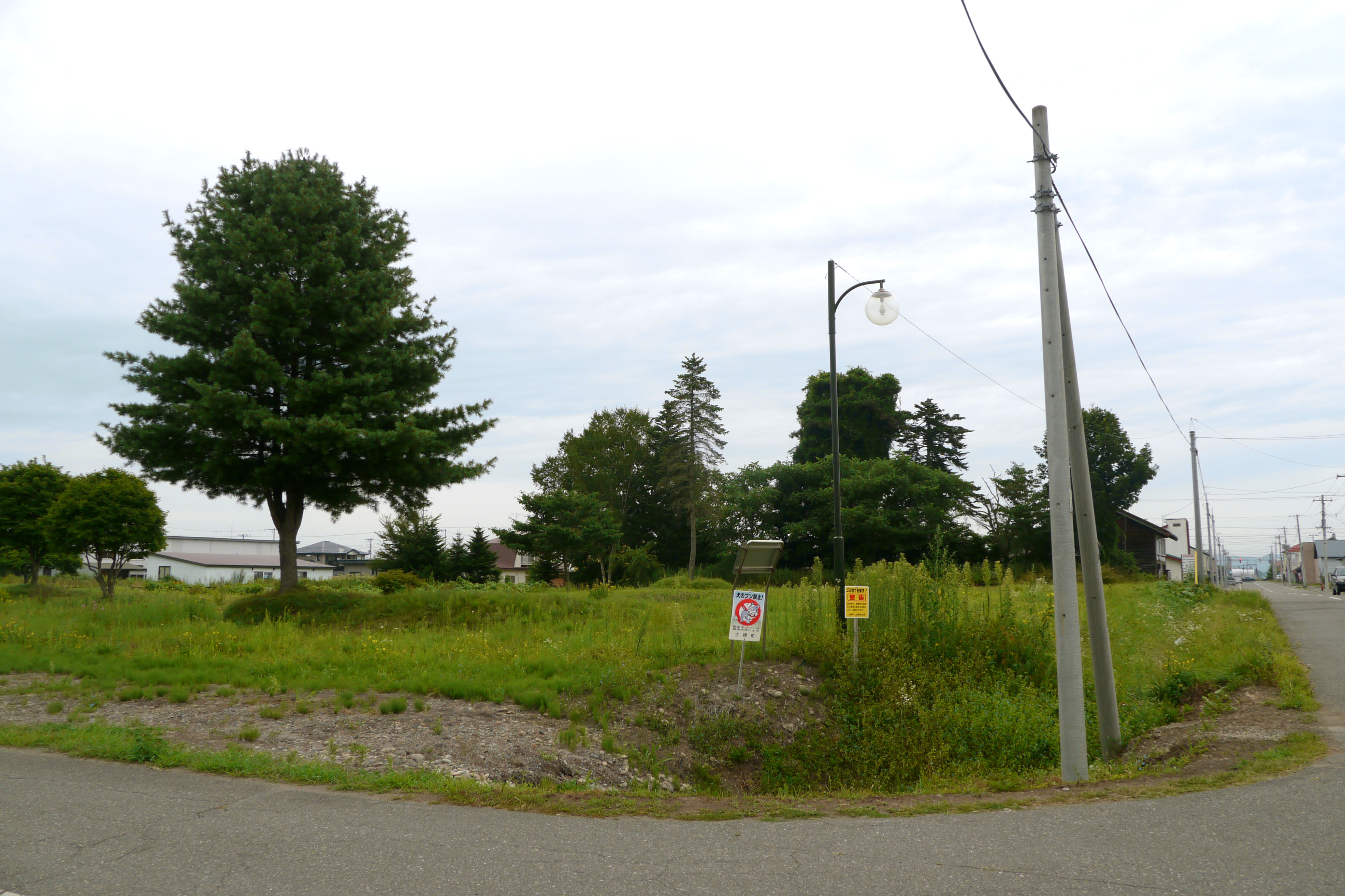 The former location of Naka-Shihoro Station on the Shihoro Line in Hokkaido, Japan